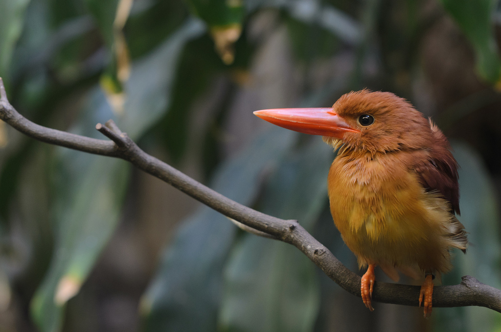 A Ruddy Kingfisher at Ueno Zoo, Tokyo, Japan.